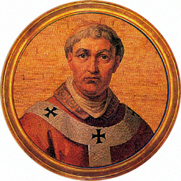 Urbanus VI, portrait from the Basilica of Saint Paul Outside the Walls